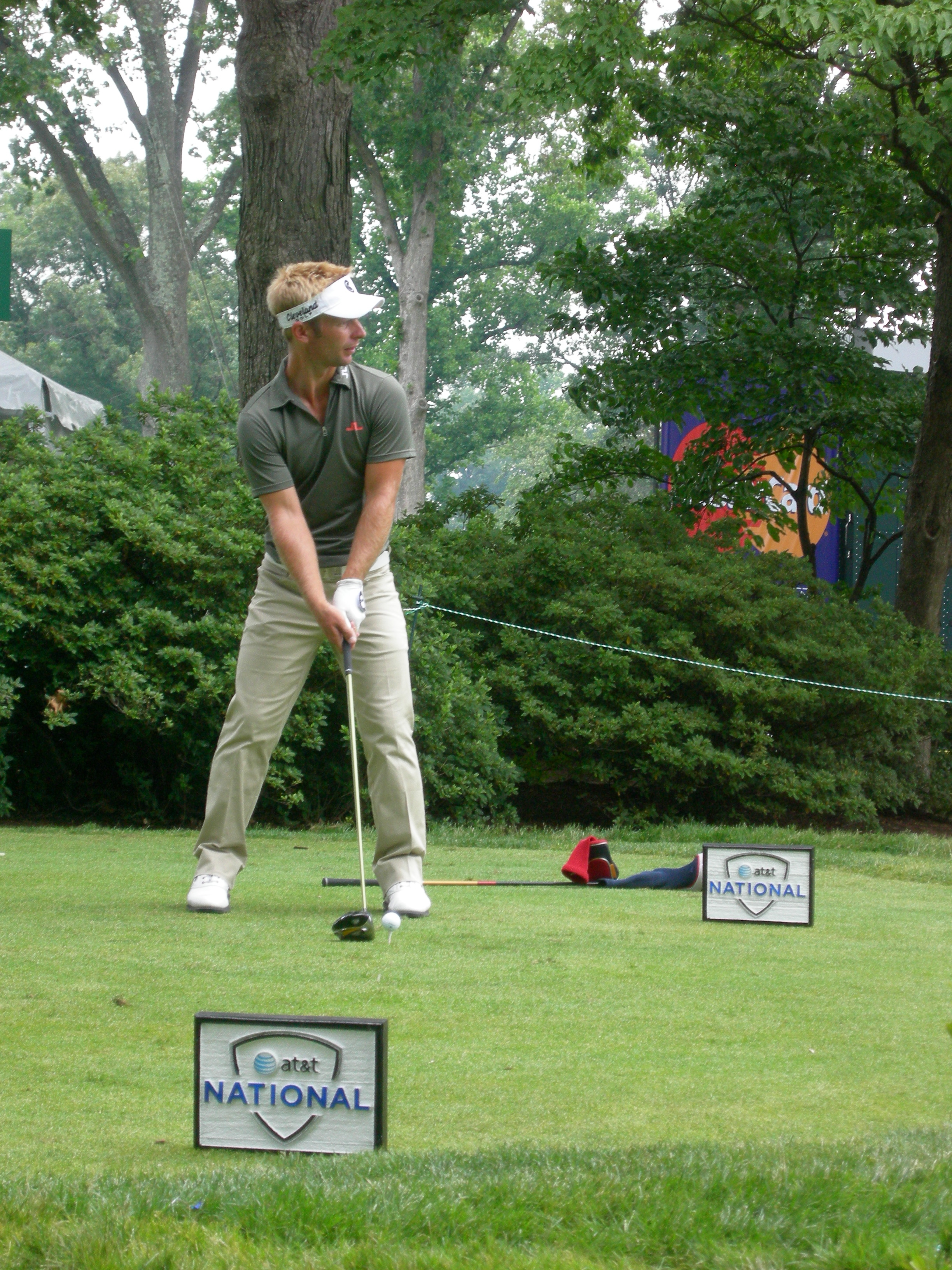 Richard S. Johnson teeing off the first hole of the Congressional Country Club's Blue Course during the Earl Woods Memorial Pro-Am prior to the 2007 AT&T National tournament.